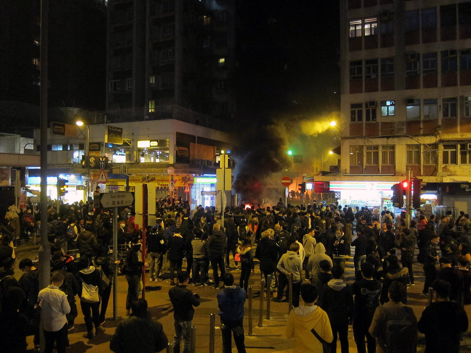 Protesters at the corner of Soy Street and Fa Yuen Street.